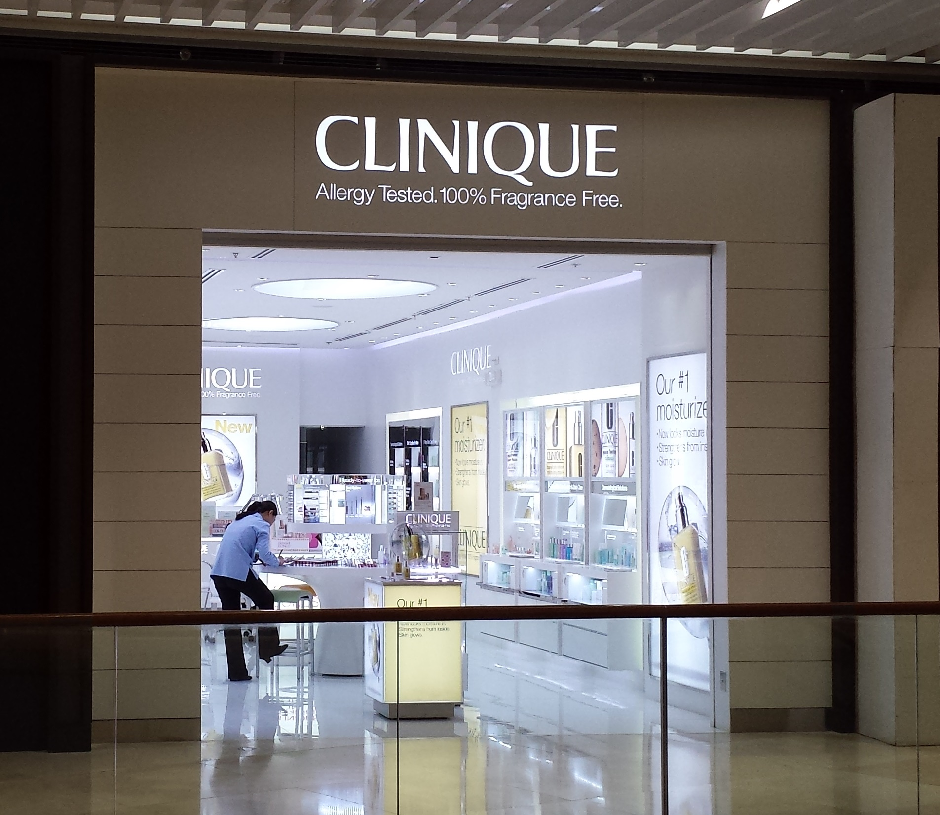 A Clinique store in the SM Aura Premier mall in Bonifacio Global City, Metro Manila, Philippines